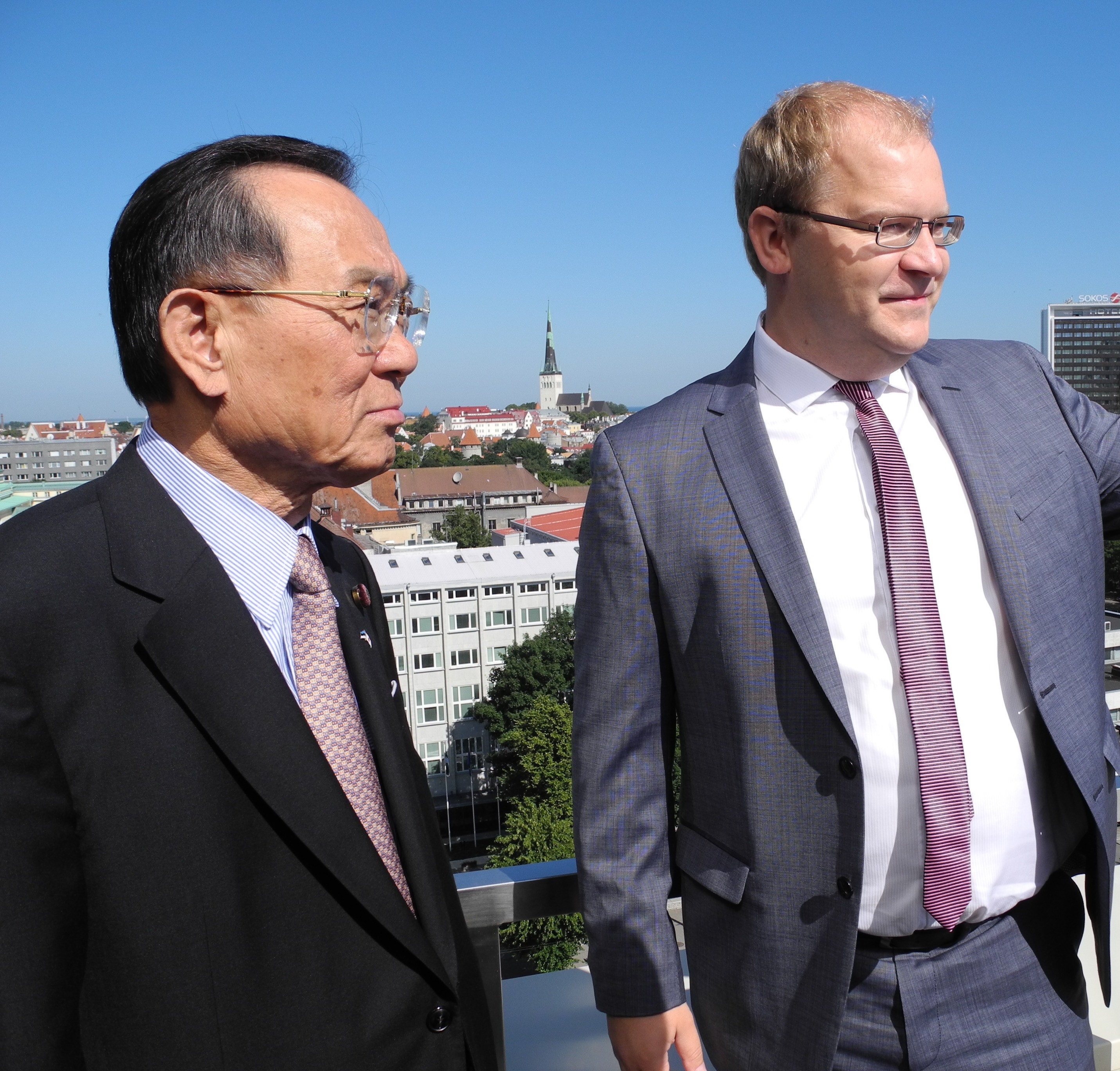 Masaaki Yamazaki, President of the House of Councillors, met Urmas Paet, Minister of Foreign Affairs, in Estonia